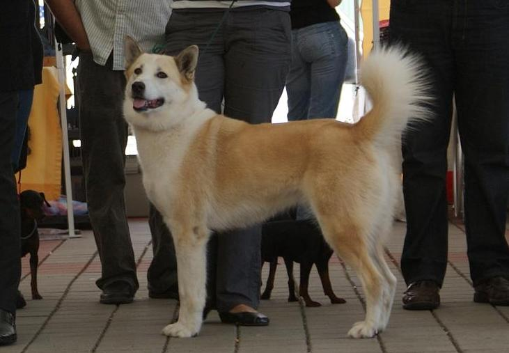 East Siberian Laika, TUISKUKIVALON HELMI, World Winner 2009 at World Dog Show in Bratislava Owner: Veselin Georgiev, Bulgaria